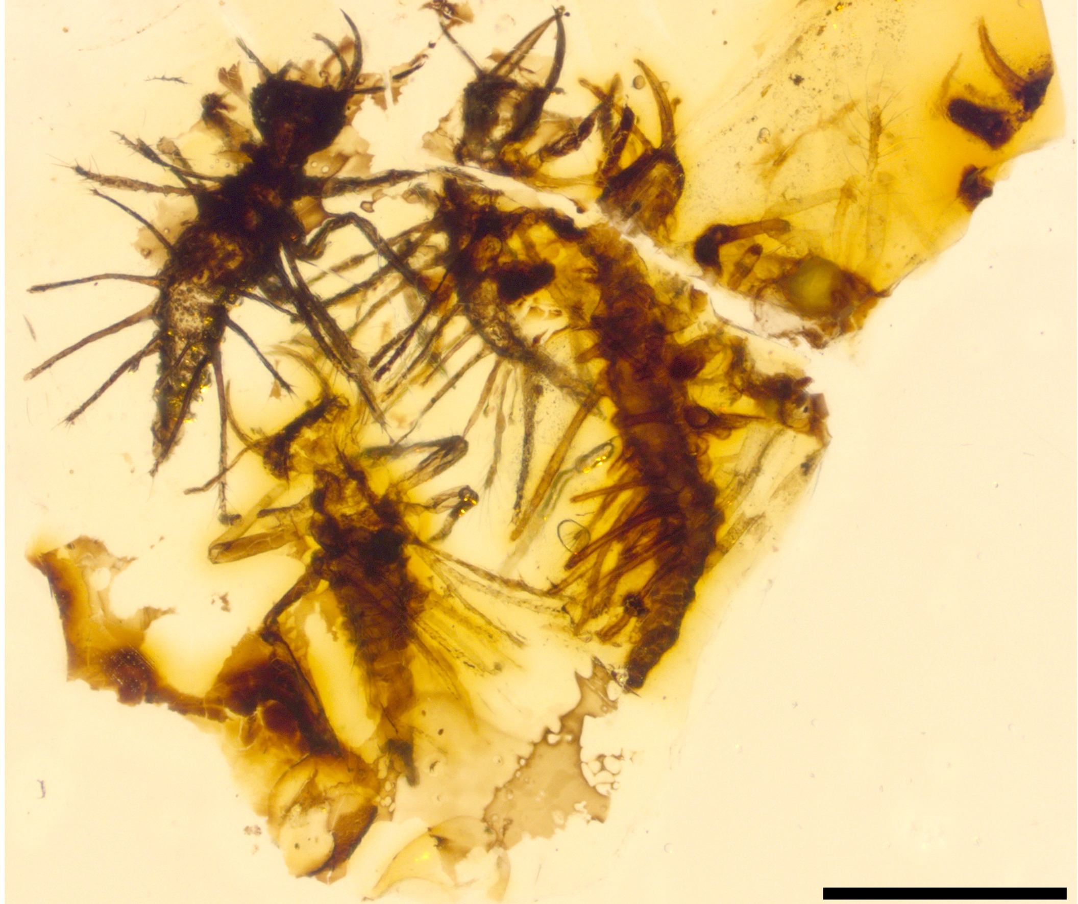 FIG. 1. Tragichrysa ovoruptora gen. et sp. nov. neonate larvae and associated egg remains, photograph and drawing. Preparation NHMLU-AC S-7, bearing six specimens (a–f, NHMLU-AC S-7a–f) including the holotype (NHMLU-AC S-7a) and remains of seven eggs. This preparation (together with NHMLU-AC S-1 (Fig. 2) and NHMLU-AC S-2 (Fig. 4D)) originally belonged to the same amber piece. Egg remains are depicted in grey and each is marked with an asterisk. The numbers 1 and 2 refer to details shown in Figure 3A and G. The head of specimen NHMLU-AC S-7e (partially preserved) has not been depicted for clarity and is visible from the opposite angle. Scale bar represents 1 mm.